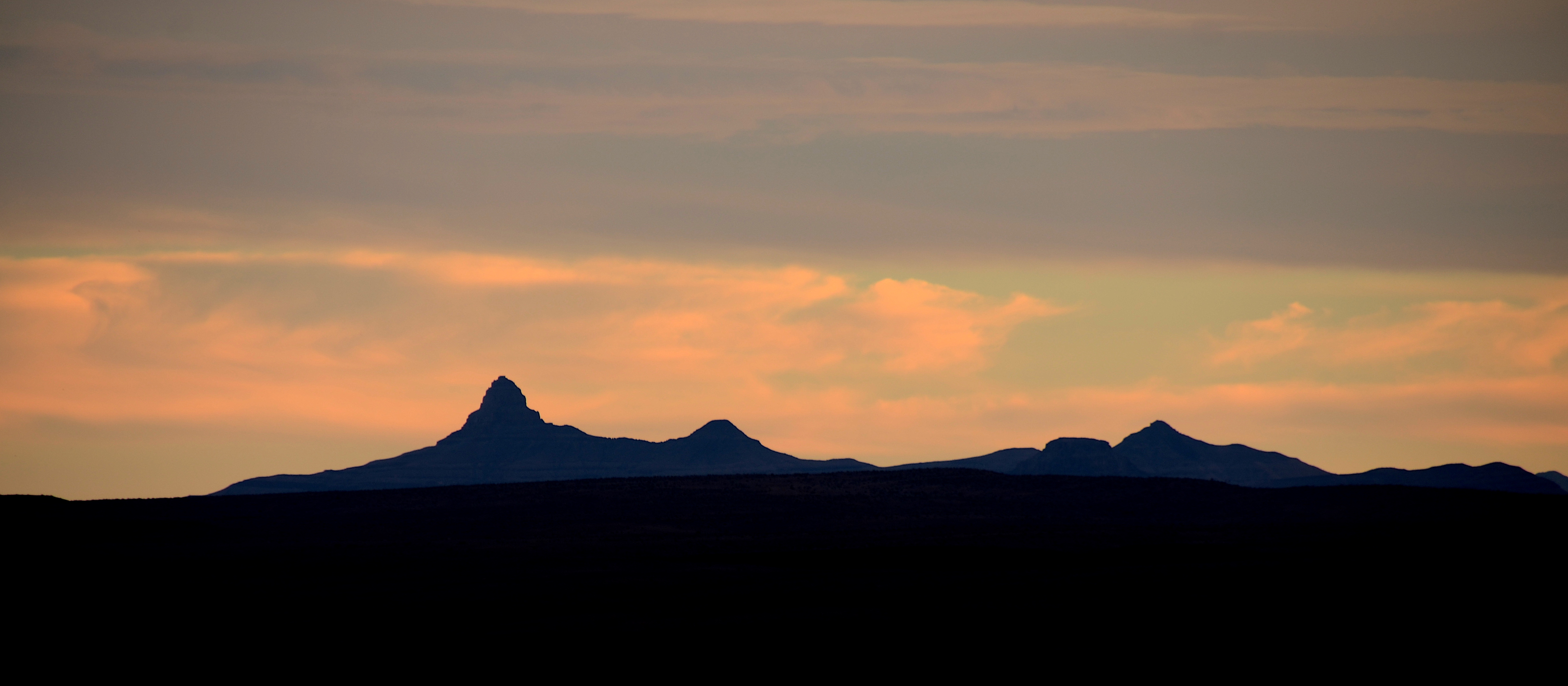 "Spiegelberg" in Namibia